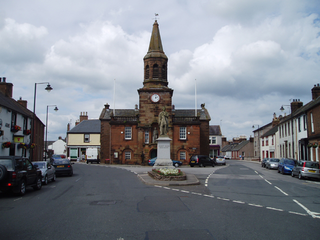 Lochmaben Town Hall. View along the main street of this beautifully situated town towards the 18th century town hall with Robert the Bruce's statue in front.